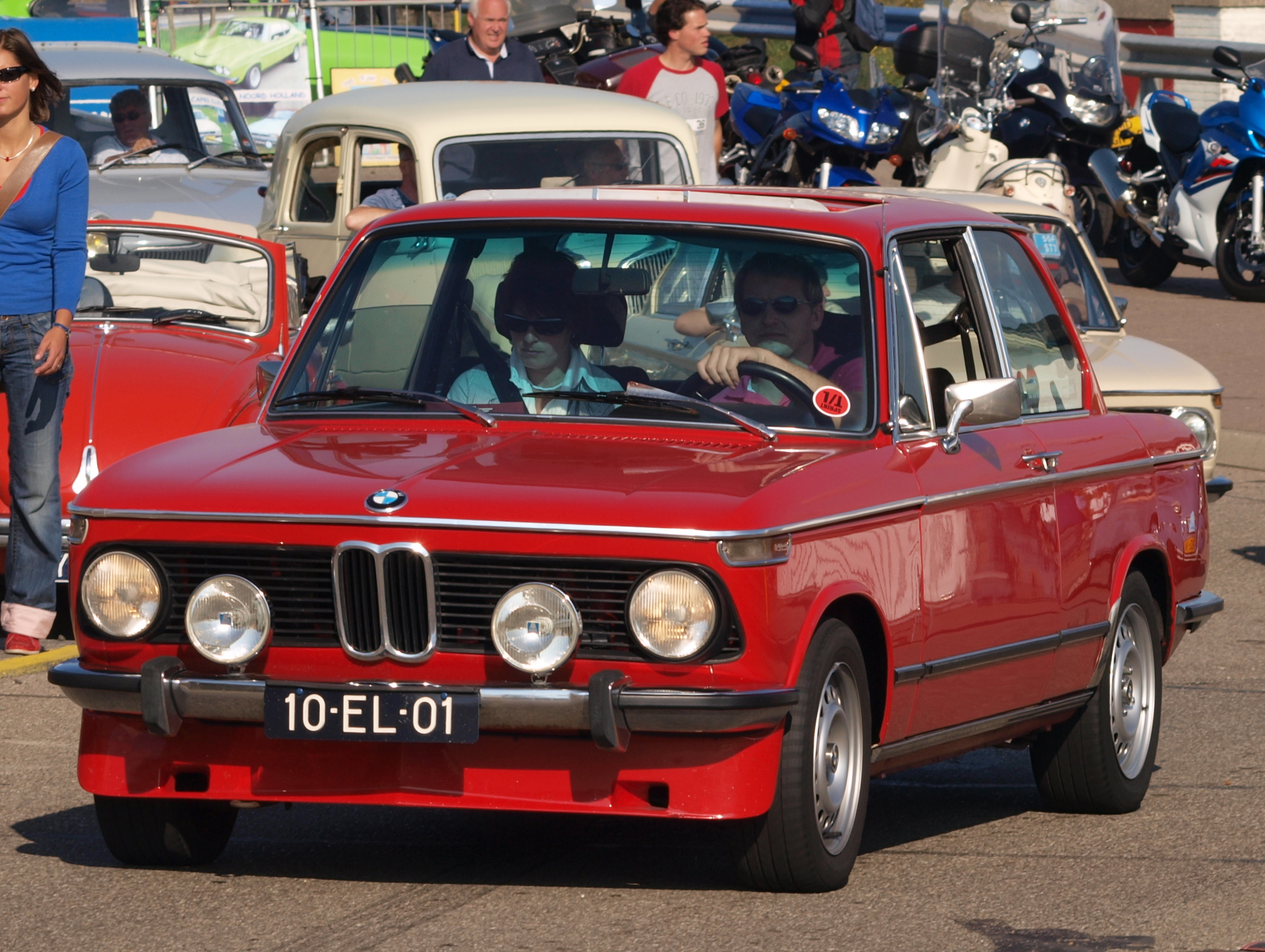 Photographed at the Nationaal Oldtimer Festival Zandvoort 2009, The Netherlands. OLYMPUS DIGITAL CAMERA